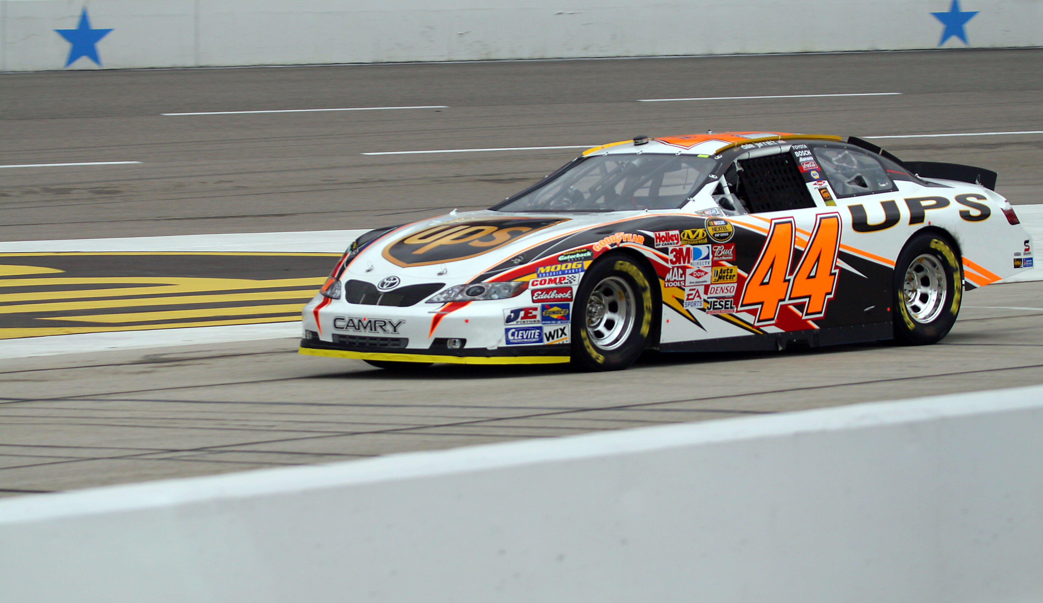 NASCAR driver Dale Jarrett enters the pits at Saturday's Nextel Cup practice.What can brown do for you?